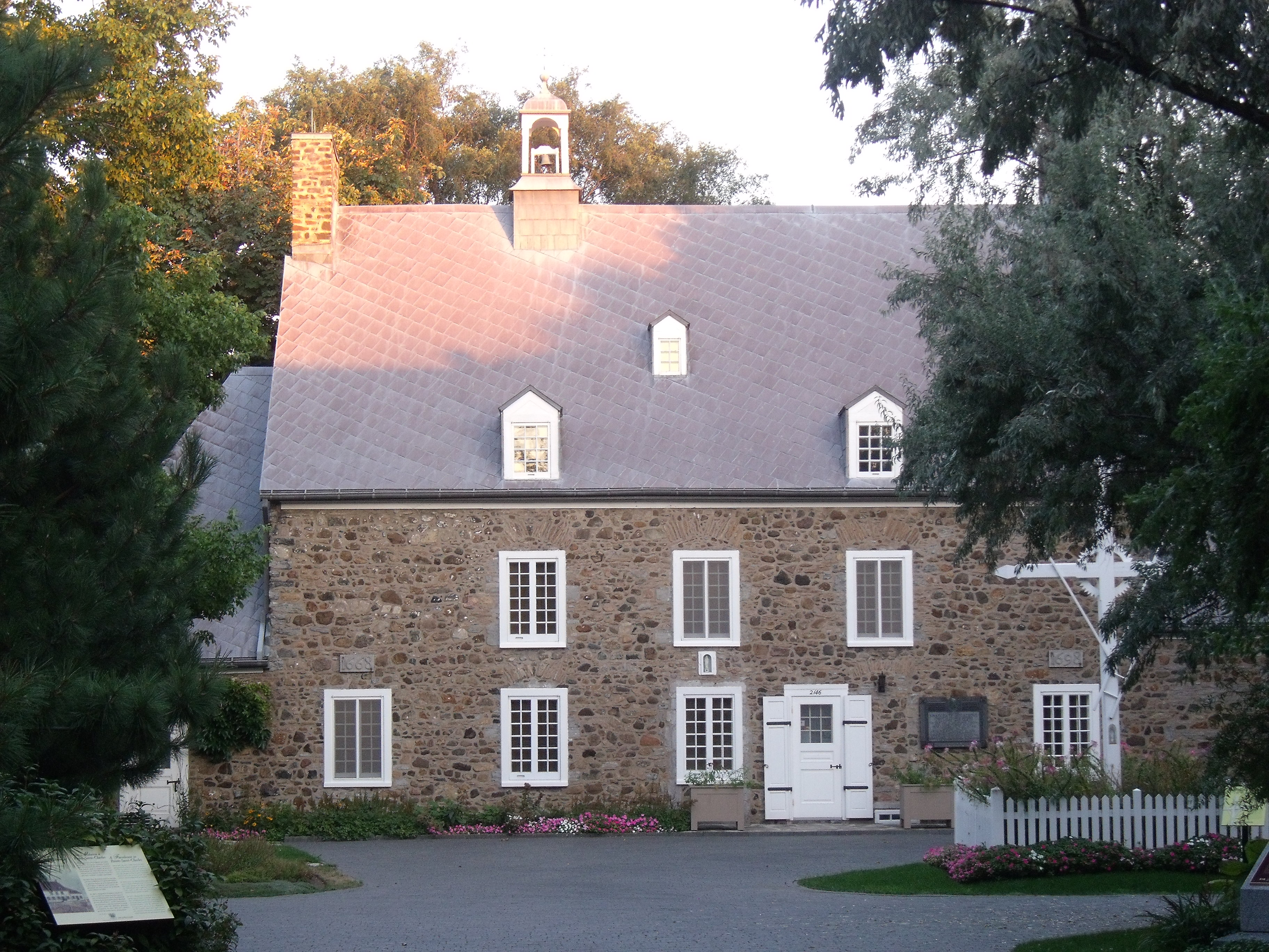 Saint-Gabriel House, 2146, Dublin Place, Montreal, Quebec, H3K, Canada.